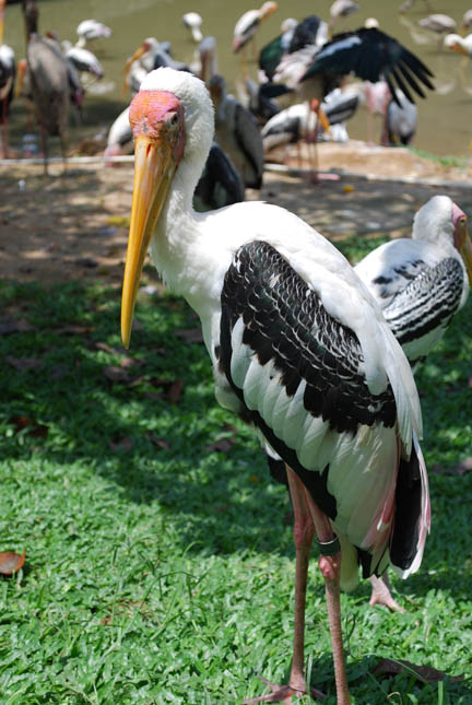 Painted Storks at Zoo Negara, Malaysia.